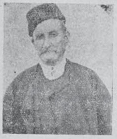 Alexo Naumov from Radovo, Demir Hisar